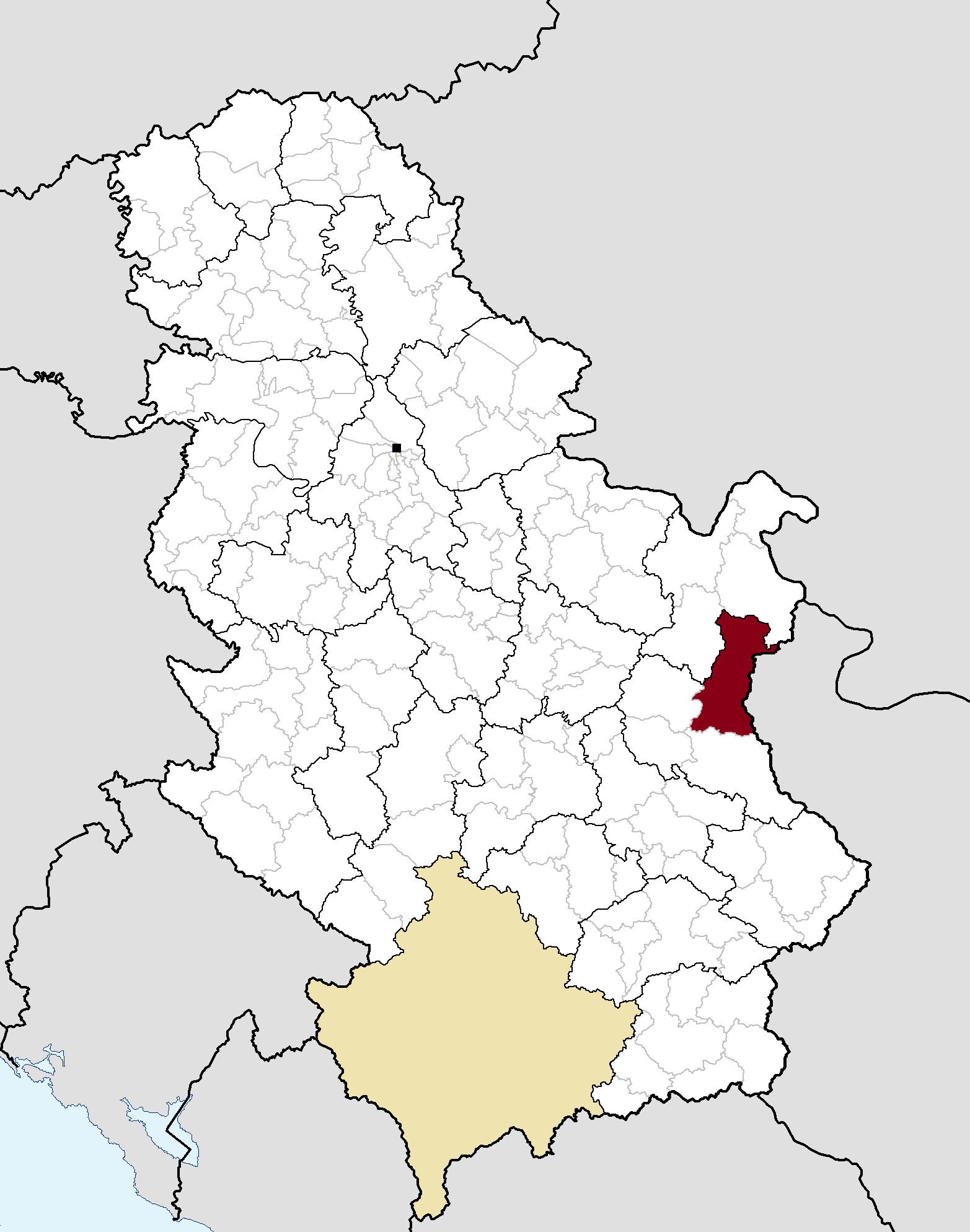 Municipal location in Serbia